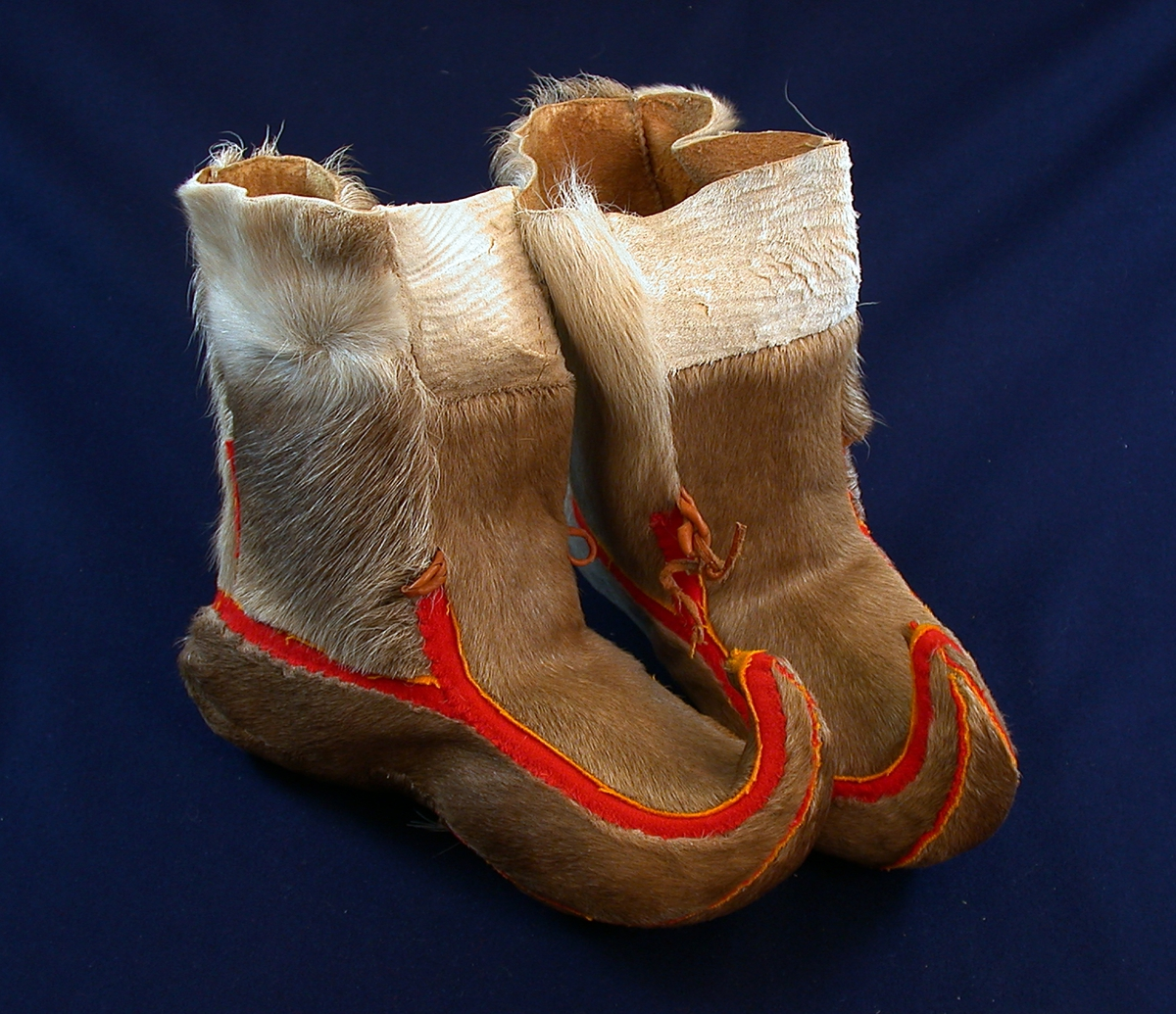 Tall traditional Sami boots made from reindeer skin. Made in 2000 by Gunhild B. Sara Buljo, in Guovdageaidnu/Kautokeino, Finnmark, Norway.